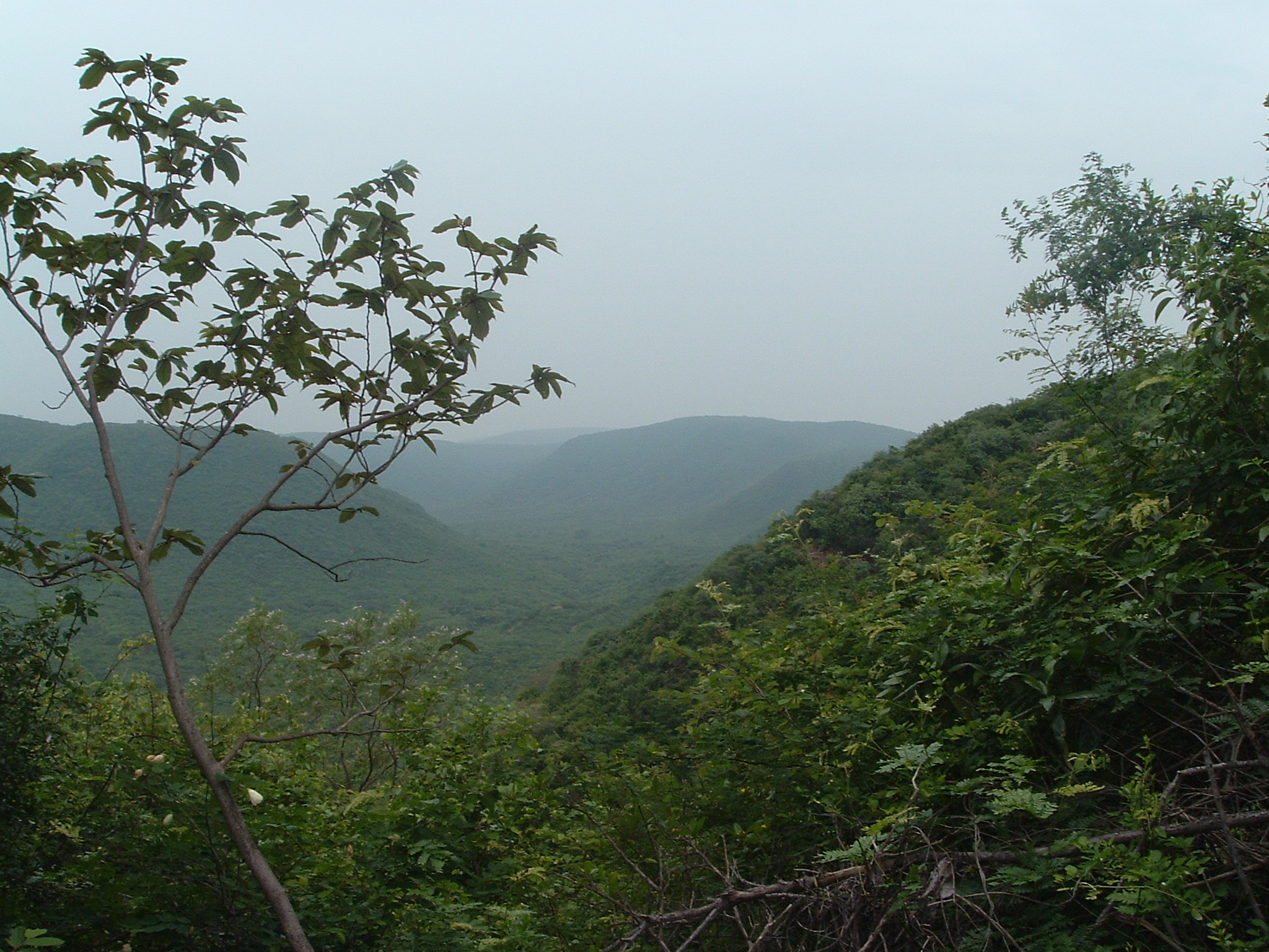 image from hill top in Kambalakonda Wildlife Sanctuary near Vishakhapatnam, Andhra Pradesh (India) uploaded to the English Wikipedia by user Abhijittomar